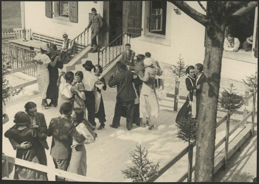 Dance at the Bénichon festival in Motélon, Switzerland, c. 1920.